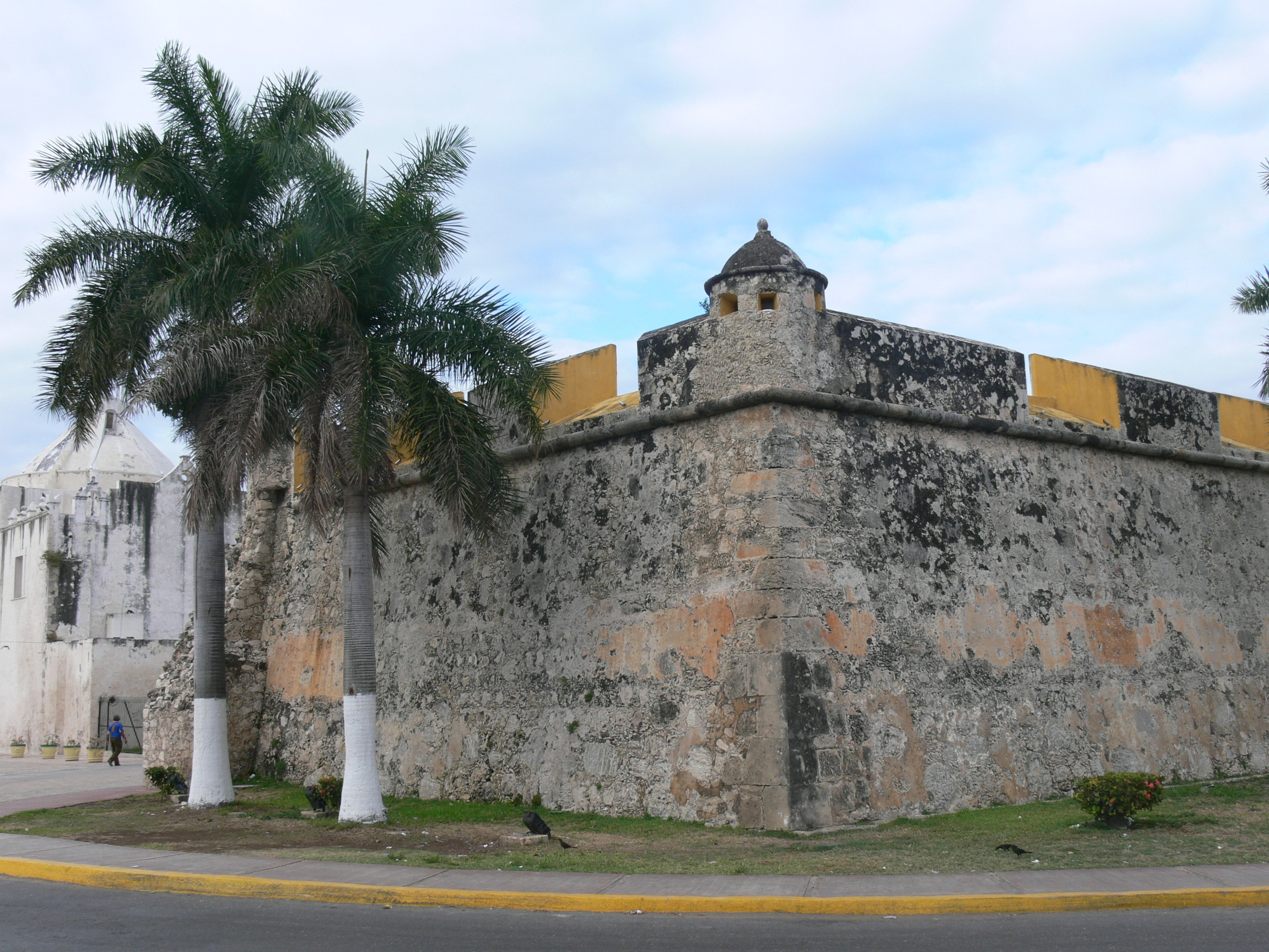 San Francisco de Campeche. Baluarte de San Pedro, part of the colonial city walls defending the city against Caribbean pirates ( 1686 )